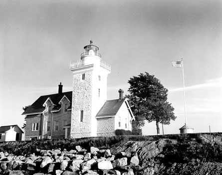 Thirty Mile Point - Lake Ontario - near Barker, NY